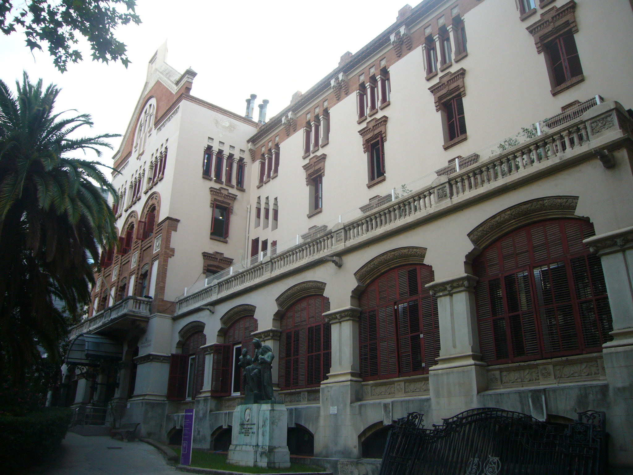 Hospital Quinta de Salut l'Aliança, inaugurated in 1917 in Barcelona by the mutual organization